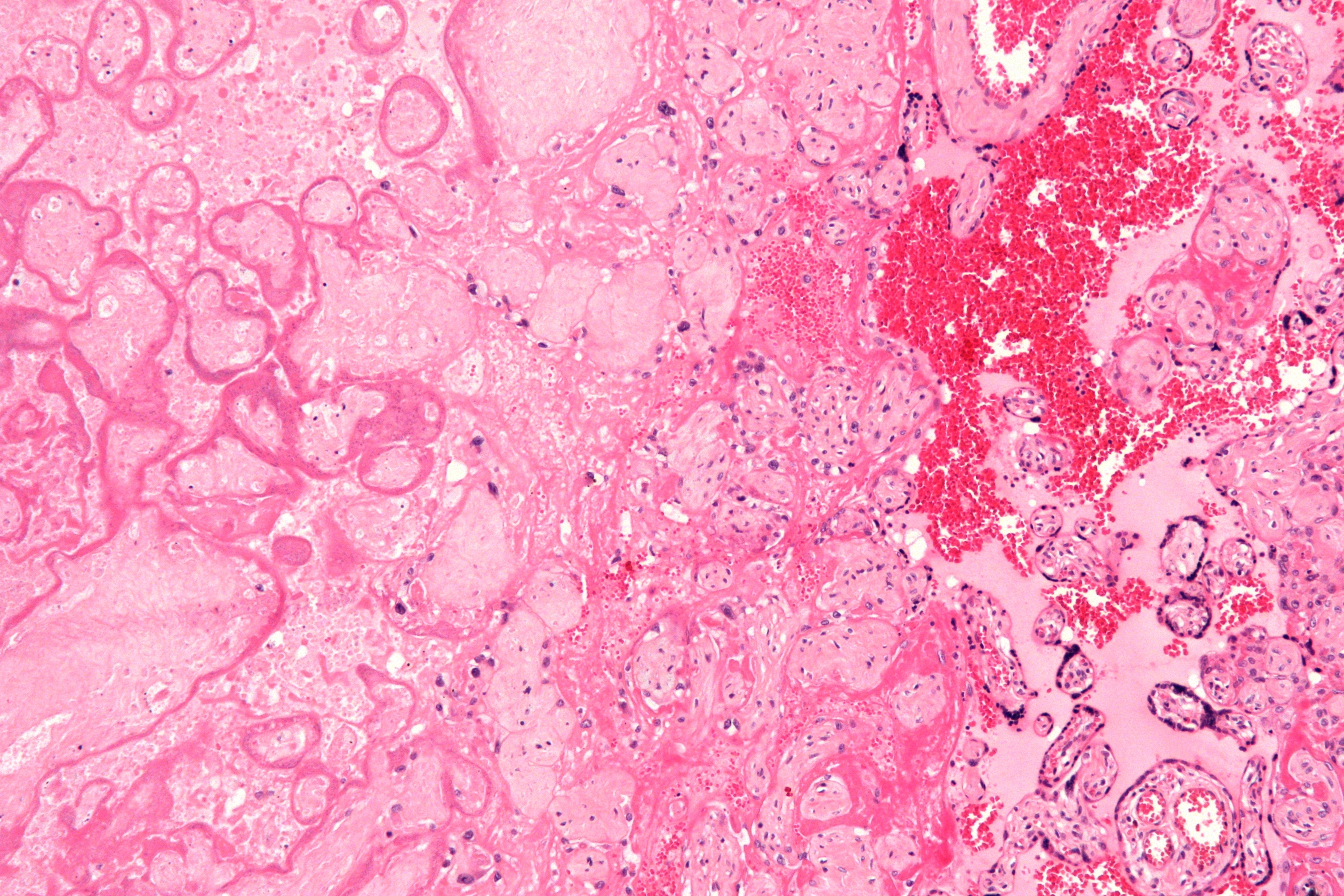 Intermediate magnification micrograph of a placental infarct. H&E stain. Related images Low mag. Intermed. mag.